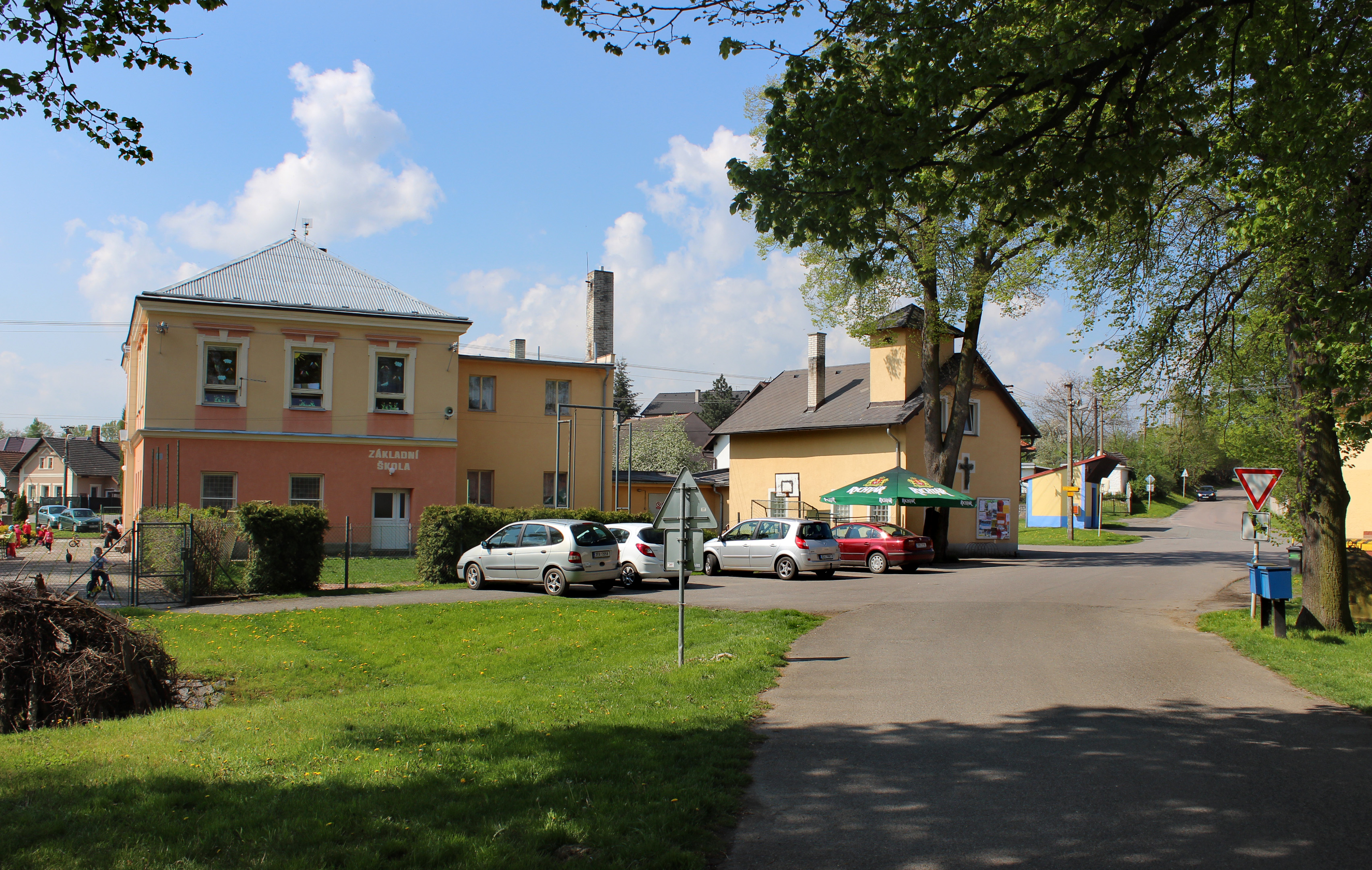 Common in Žďárec u Skutče, part of Skuteč town, Czech Republic